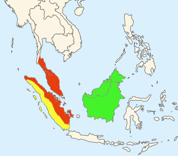 Geographic distribution of Python brongersmai (Bloodpython), Python breitensteini (Borneo short-tailed python) and Python curtus (Sumatra short-tailed python) Red: Python brongersmai Yellow: Python breitensteini Green: Python curtus based on: J. Scott Keogh, David G. Barker und Richard Shine: Heavily exploited but poorly known: systematics and biogeography of commercially harvested pythons (Python curtus group) in Southeast Asia. Biological Journal of the Linnean Society, 73: 113–129, 2001